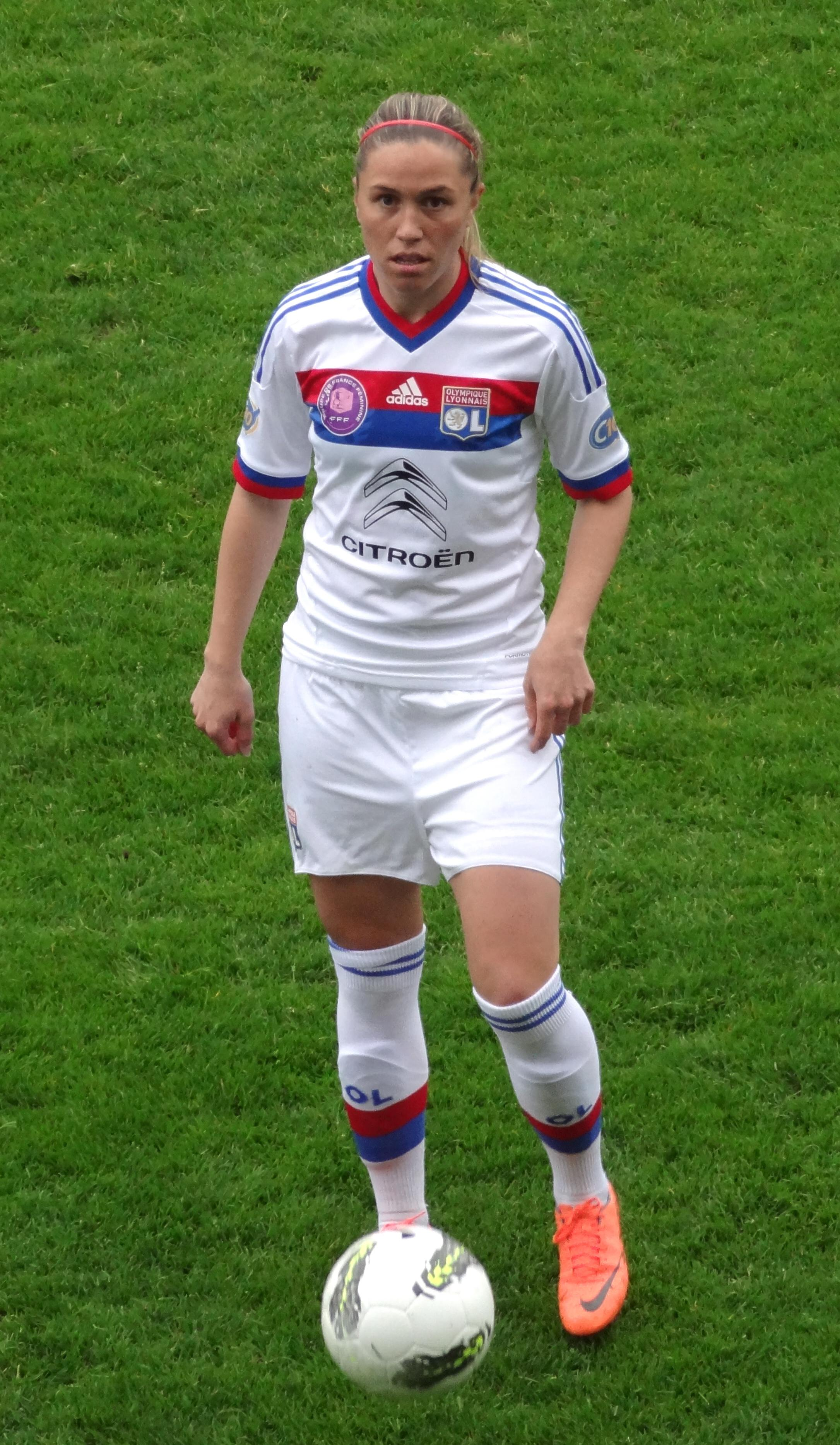 Camille Abily (Olympique Lyonnais)